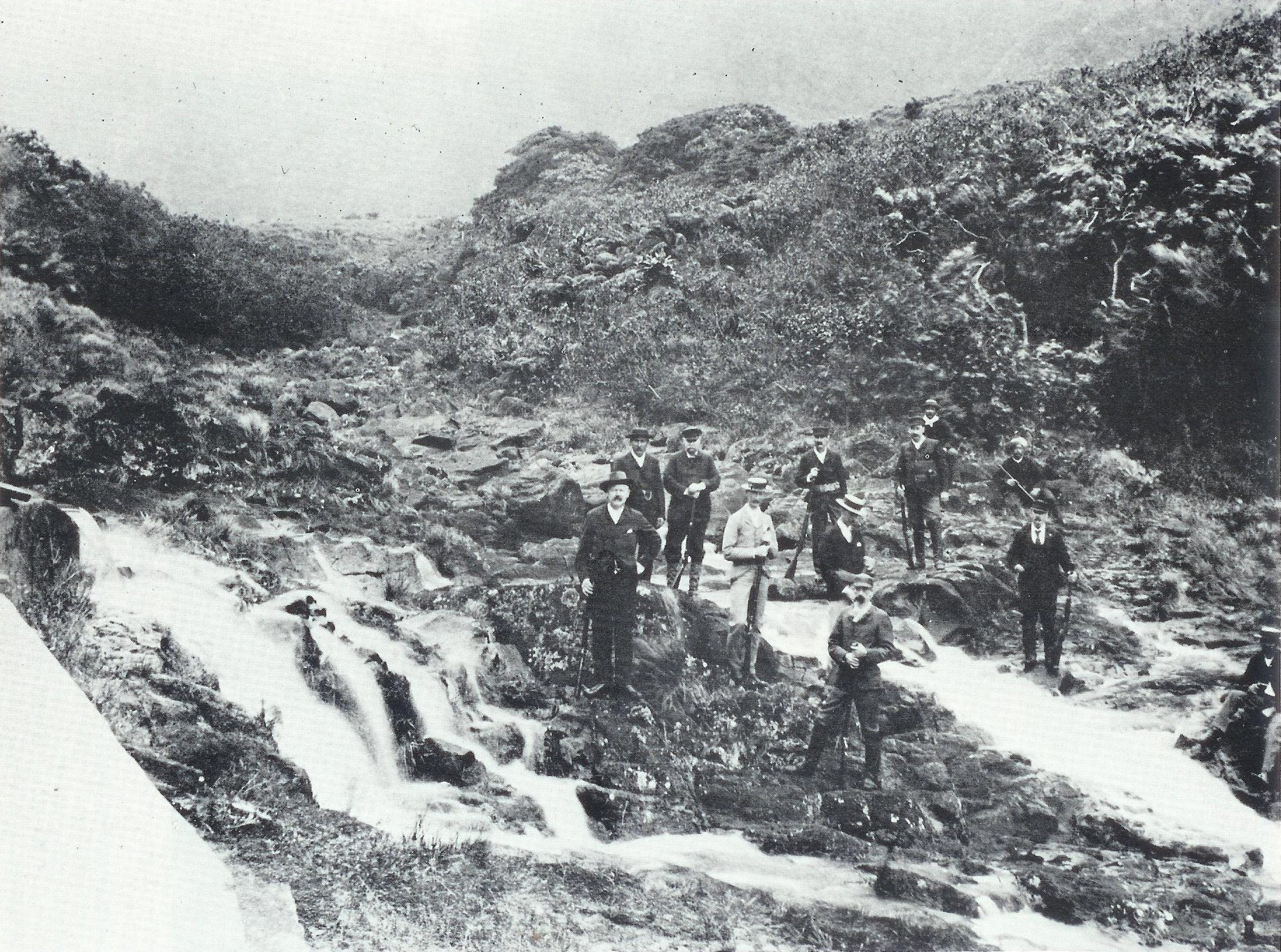 A 12 man counter-insurgency patrol of Citizens' Guards where Moole and Nuuanu Streams converge. After the Battle of Mānoa insurgences fled into the Koʻolaus resulting in leaderless resistance.